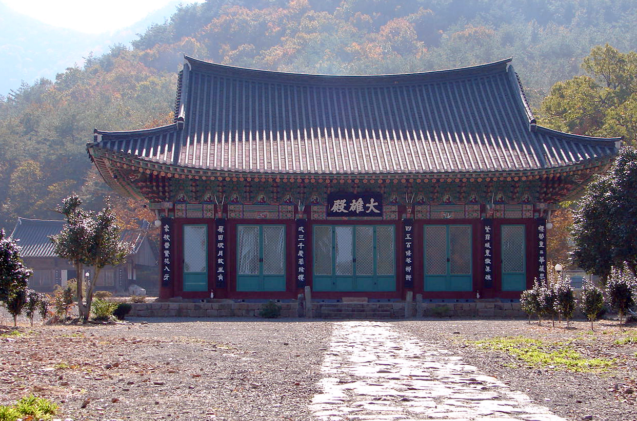 Neunggasa (Buddhist temple) at the base of Paryeong mountain. Neunggasadaeungjeon (Daeung Hall of Neungga Temple): The Hall of Sakamuni in Neugasa Temple, rebuilt in the mid 18th century. This building has both academical and historical significance, providing valuable information on the temple construction of the mid/late Joseon Dynasty in the Jeonam province.